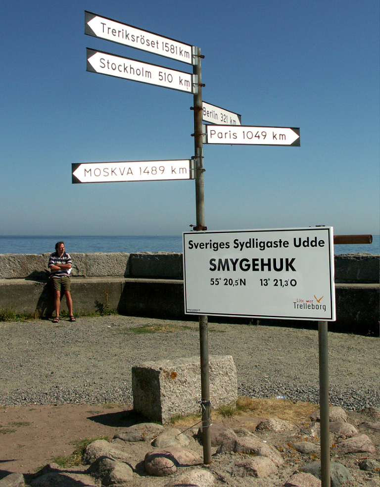 Signpost at Smygehuk, the southernmost point of Sweden. The sign tells the distance to the following locations: Treriksröset, the northern tip of Sweden, 1,581 km Stockholm, 510 km Berlin, 321 km Paris, 1,049 km Moscow, 1,489 km